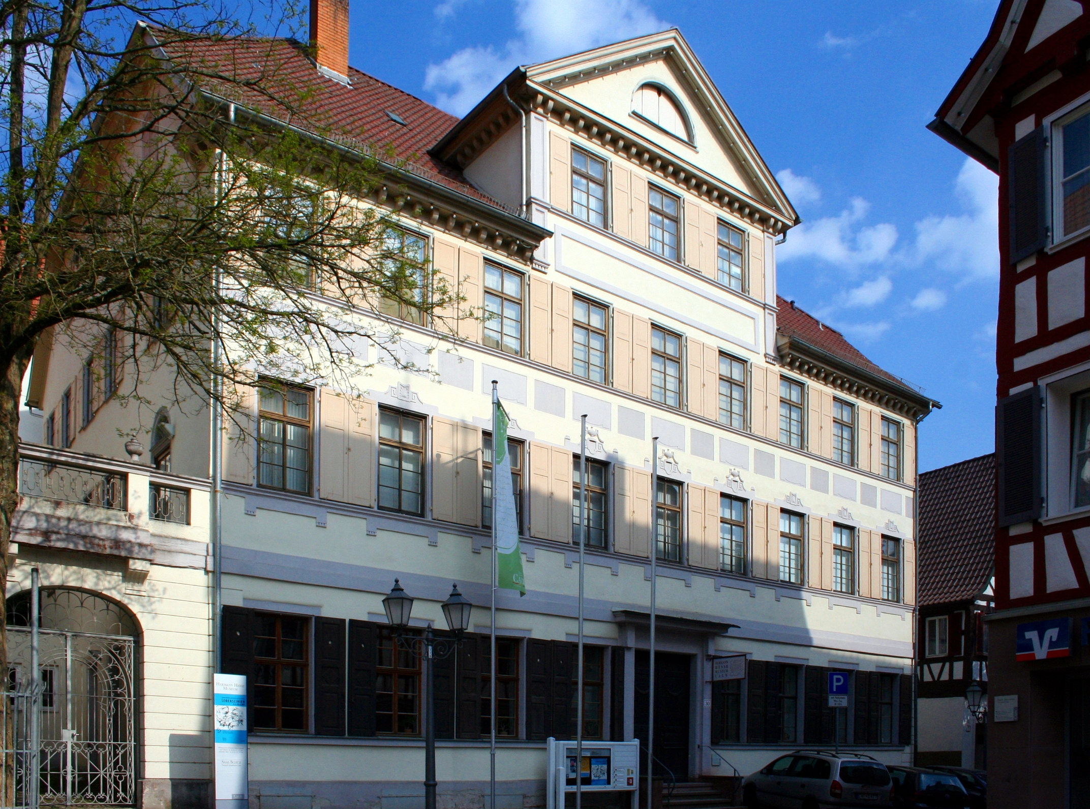 "Hermann-Hesse-Museum" in Calw, administrative district Calw, Baden-Wurttemberg, Germany.